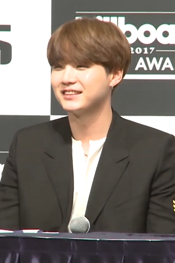 Suga at a press conference for the Billboard Music Awards on May 29, 2017